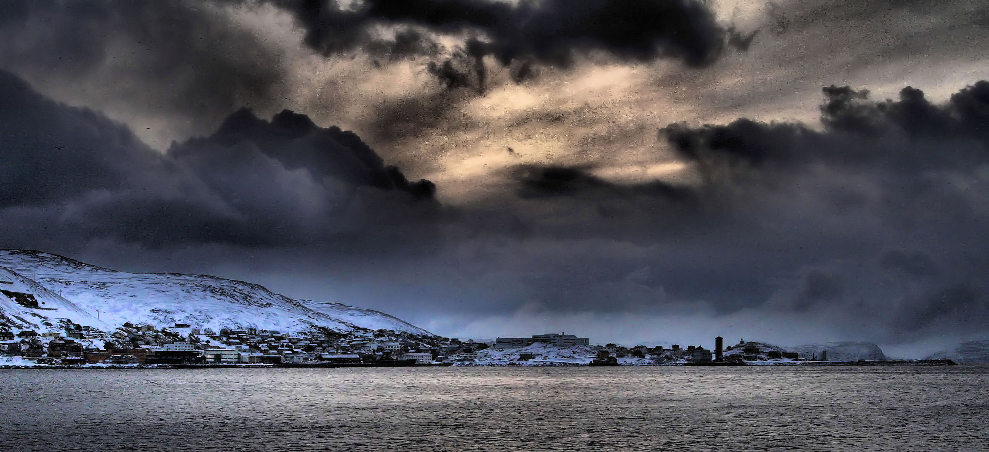 Winter 2005-2006 in Honningsvåg, Norway